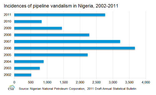 Incidences of pipeline vandalism by pirates in the Gulf of Guinea.